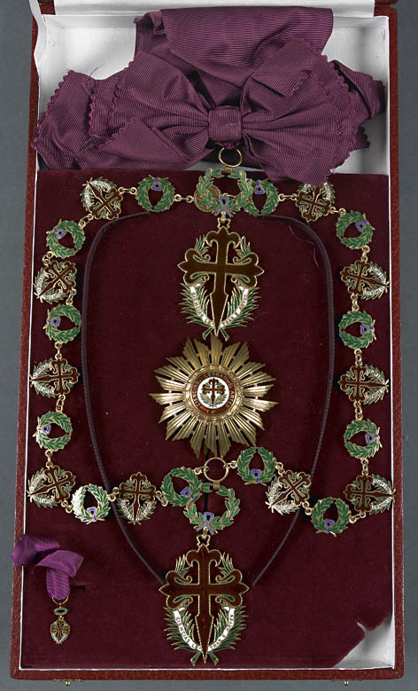 Grand Collar of the Order of Saint James of the Sword